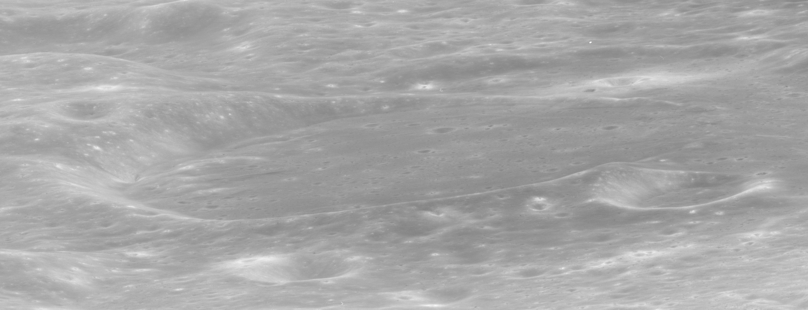 Highly oblique view of Helmert crater, facing west, on the moon. Taken by Apollo 17 panoramic camera.